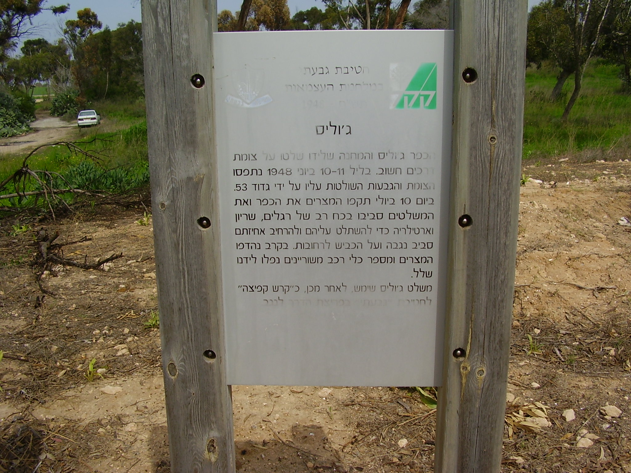 war memorial in julis (south), israel